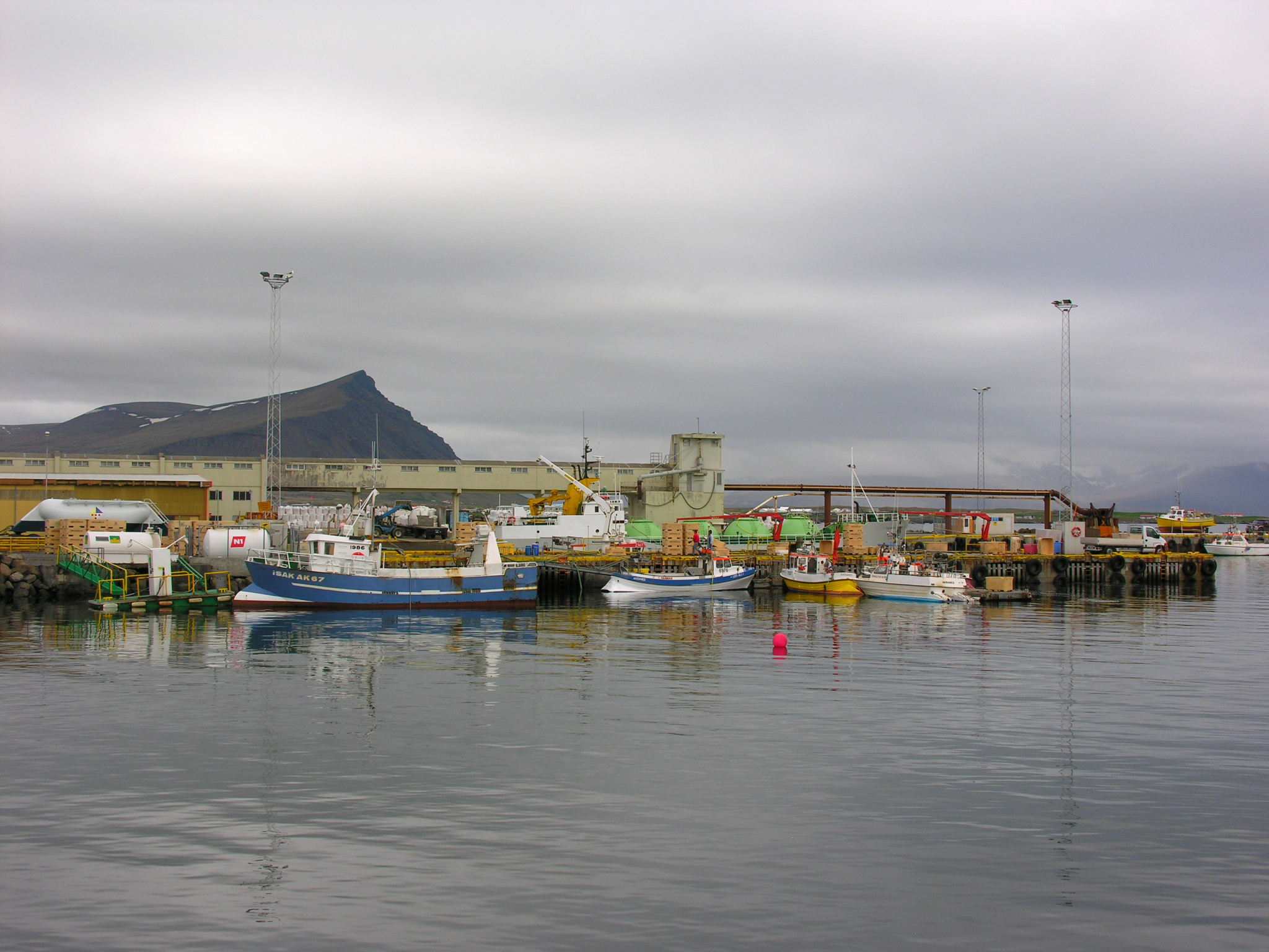 Iceland, Akranes